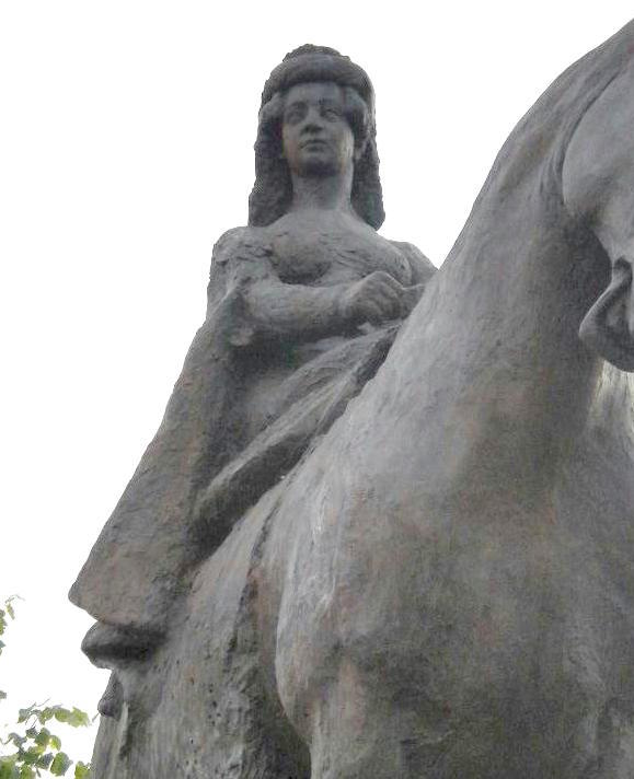 Detail of statue of Queen Margaret I the Great of Denmark, also ruler of Norway and Sweden Place: Roskilde, Denmark